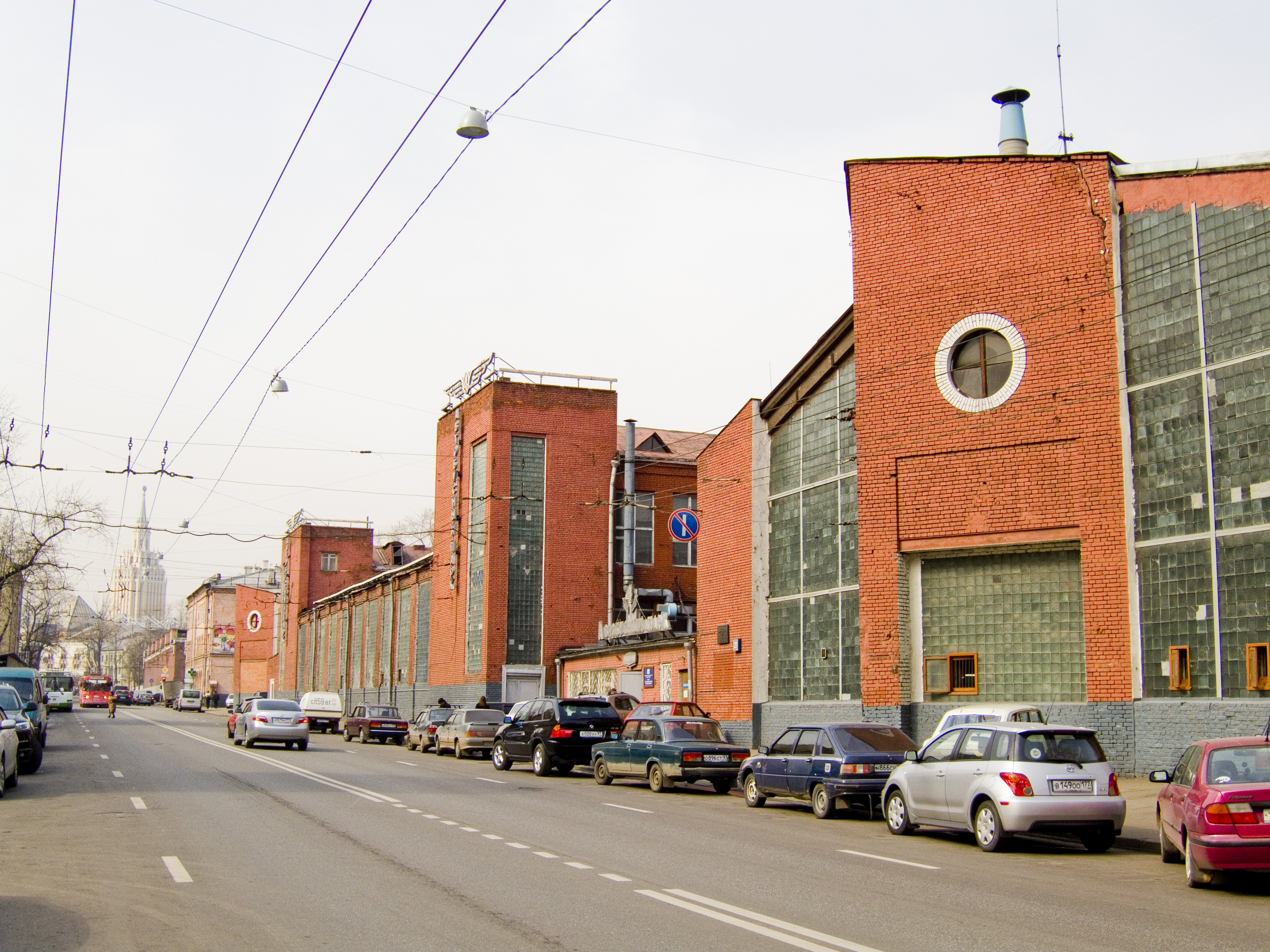 Horseshoe_Garage_by_Melnikov_and_Shukhov